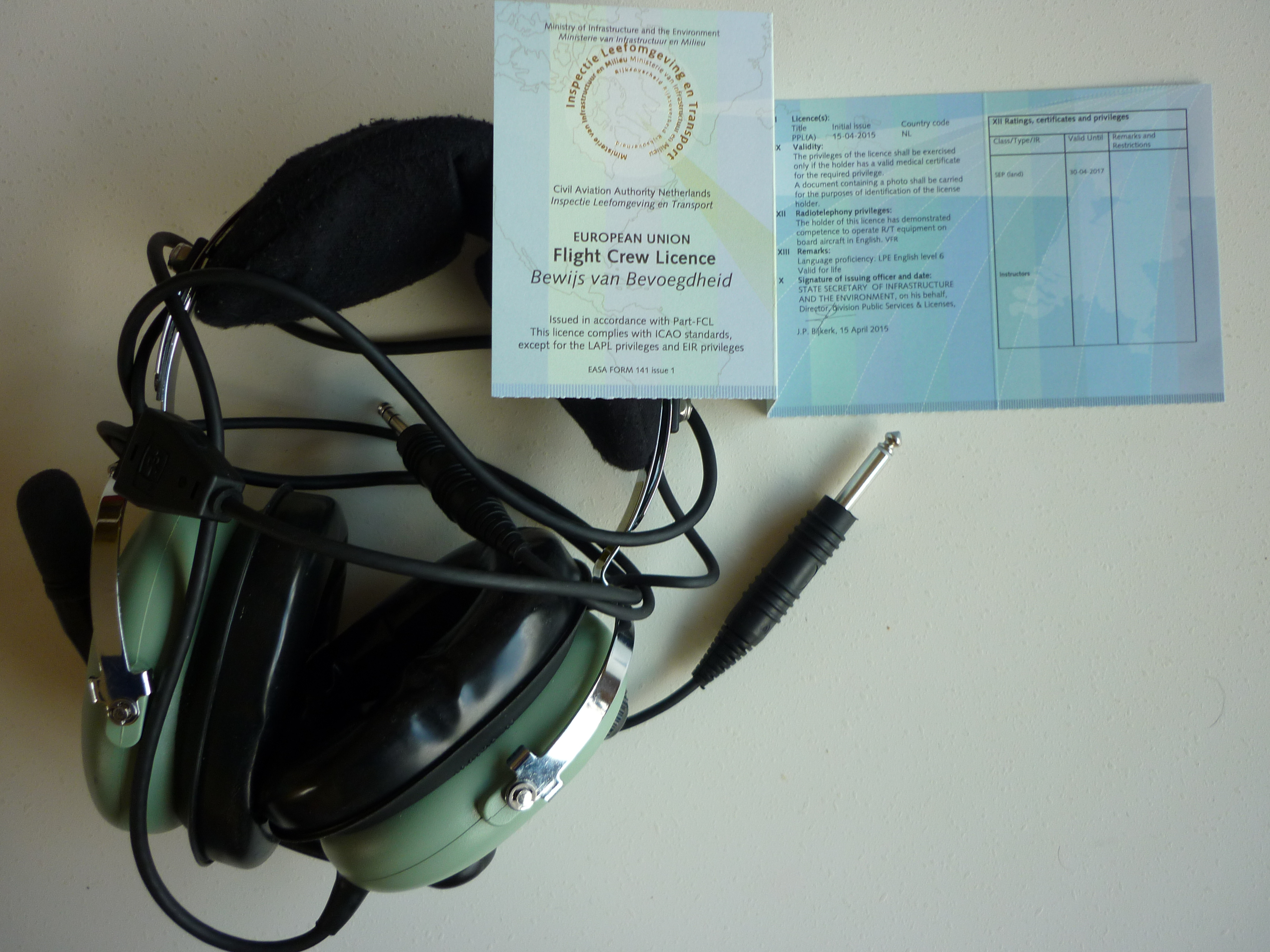 Private pilot licence issued in the Netherlands. Second page intentionally invisible to hide my personal data.